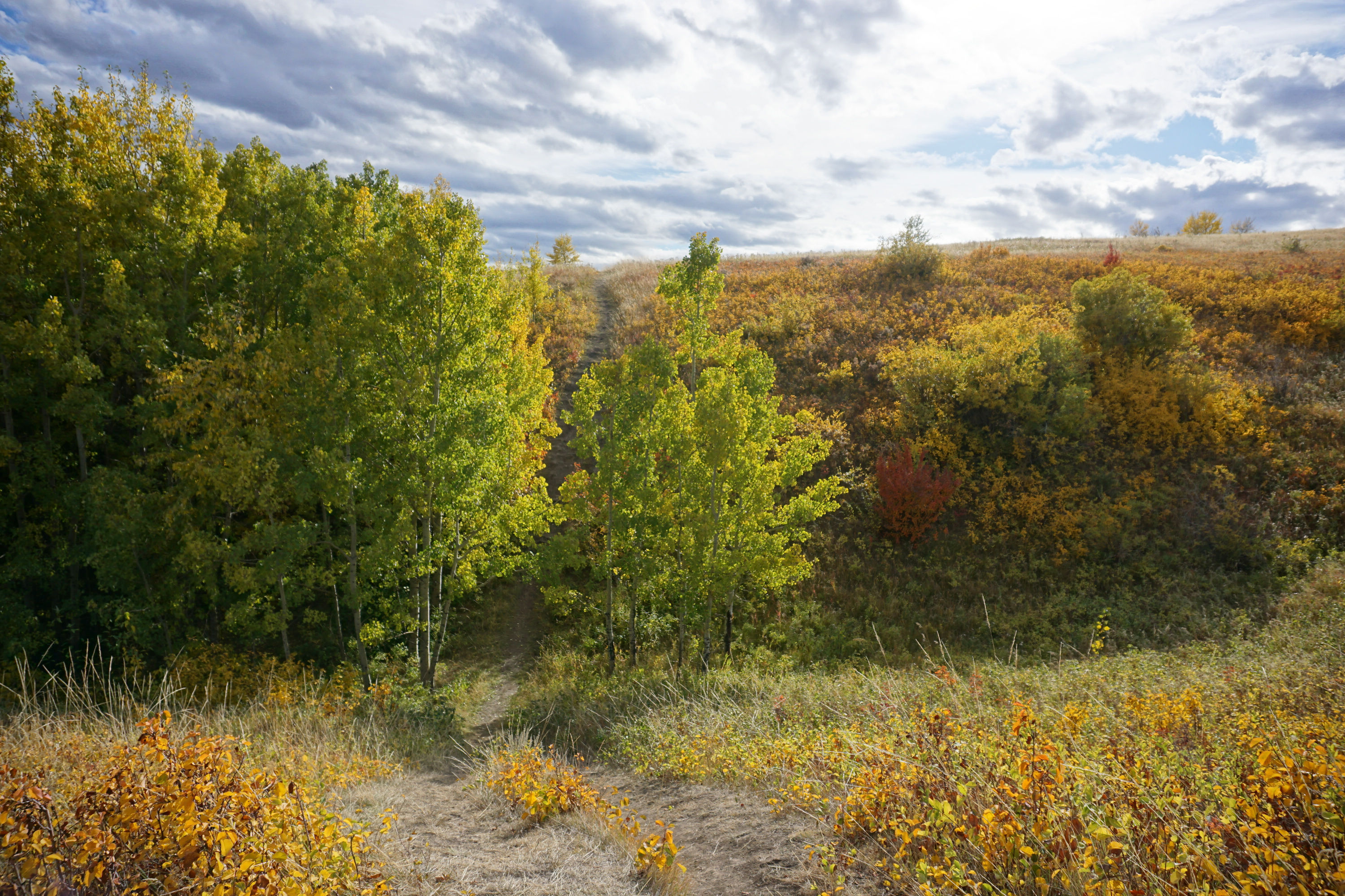 Nose Hill natural environment City Park in in the northwest quadrant of Calgary, Alberta.